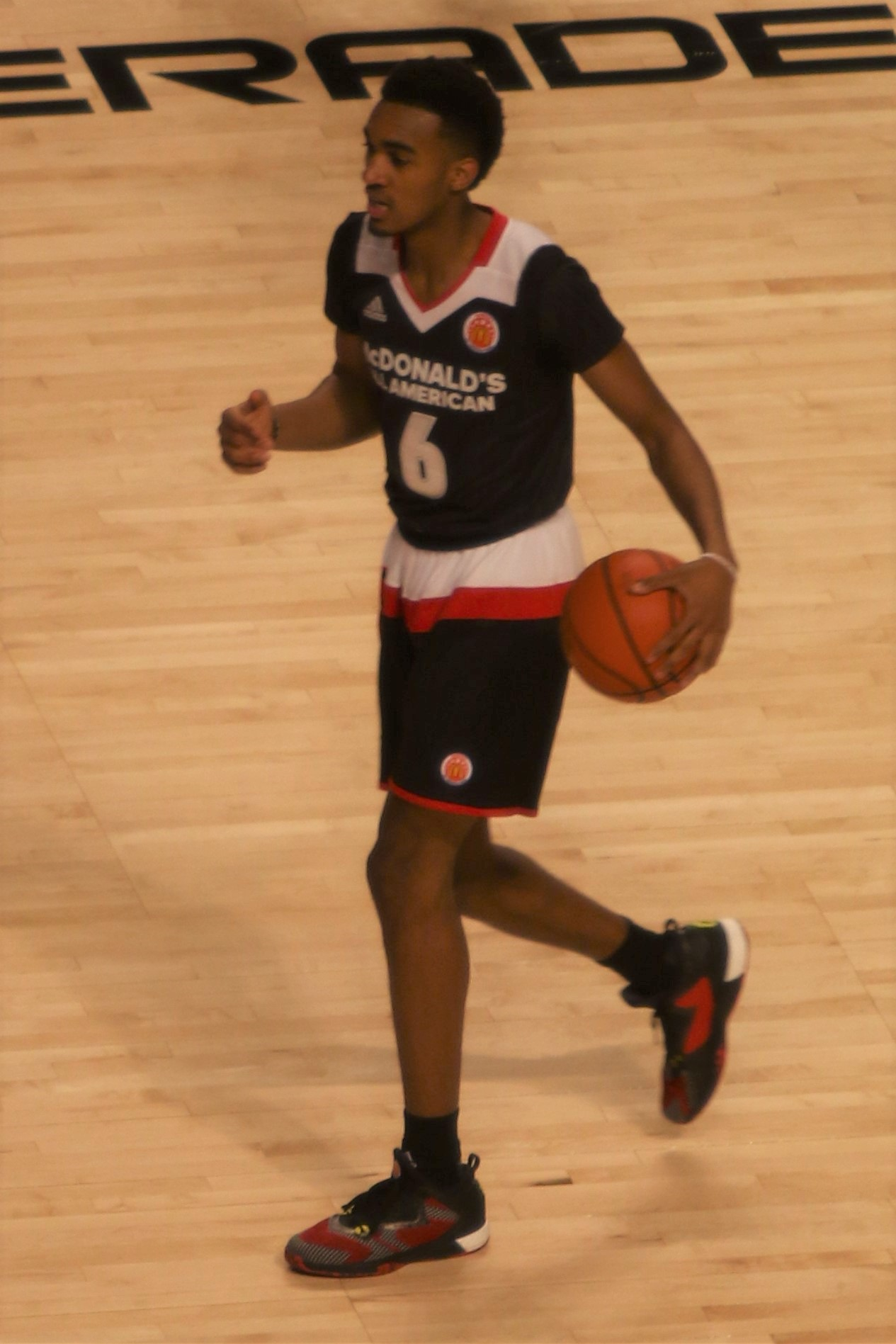 Terrance Ferguson at the w:2016 McDonald's All-American Boys Game